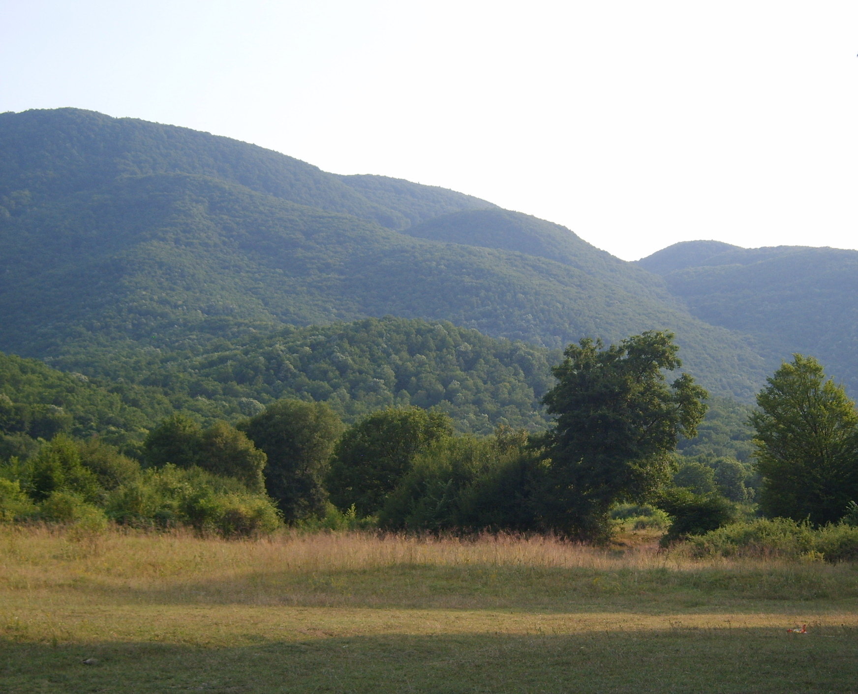 Northern slopes of the Rhodope Mountains, in area "Good water".